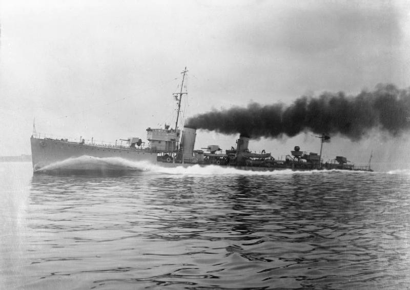 Photograph of British destroyer HMS Tenedos, underway at speed.